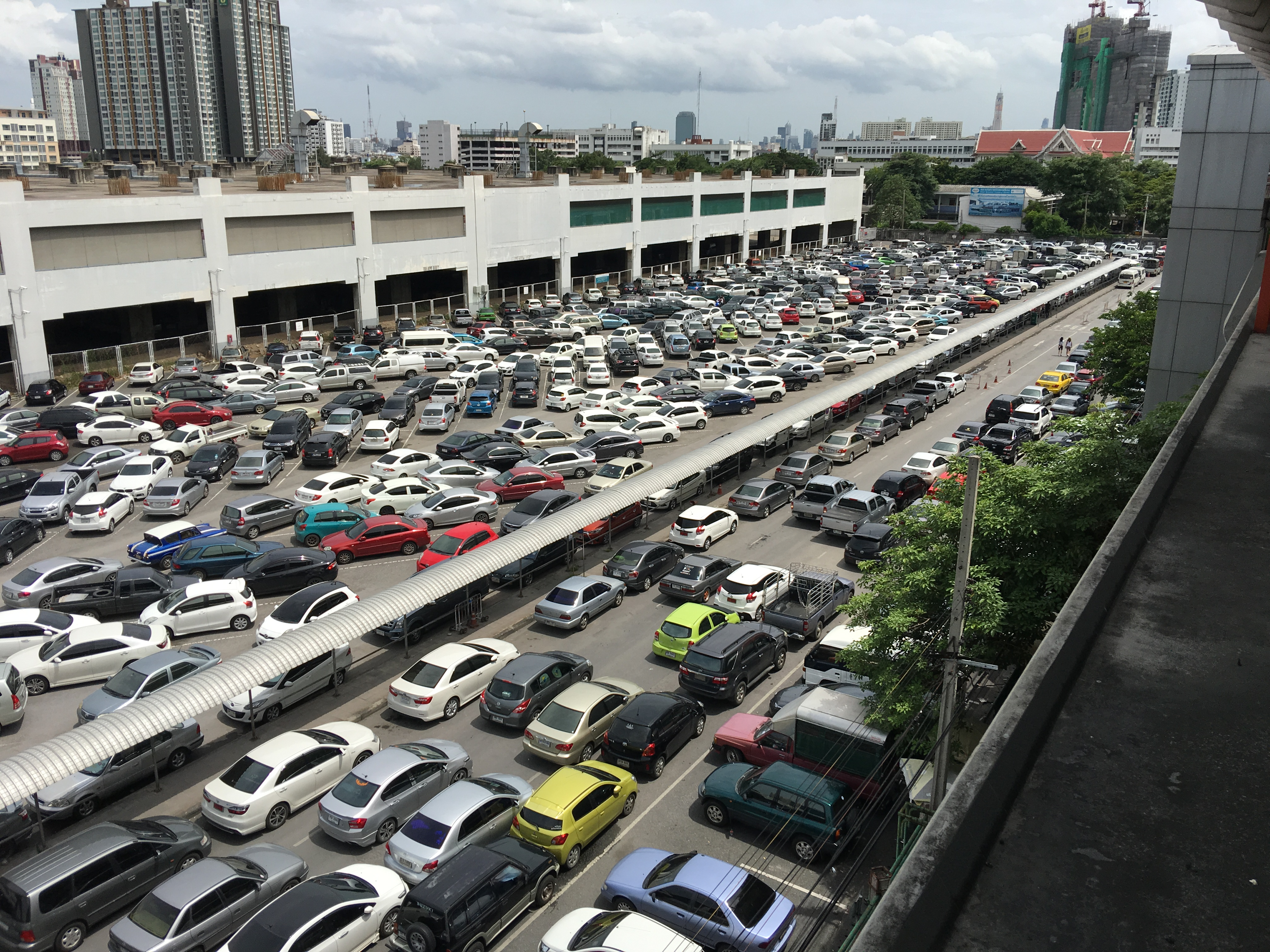 BTS Mochit Depot and parking lot